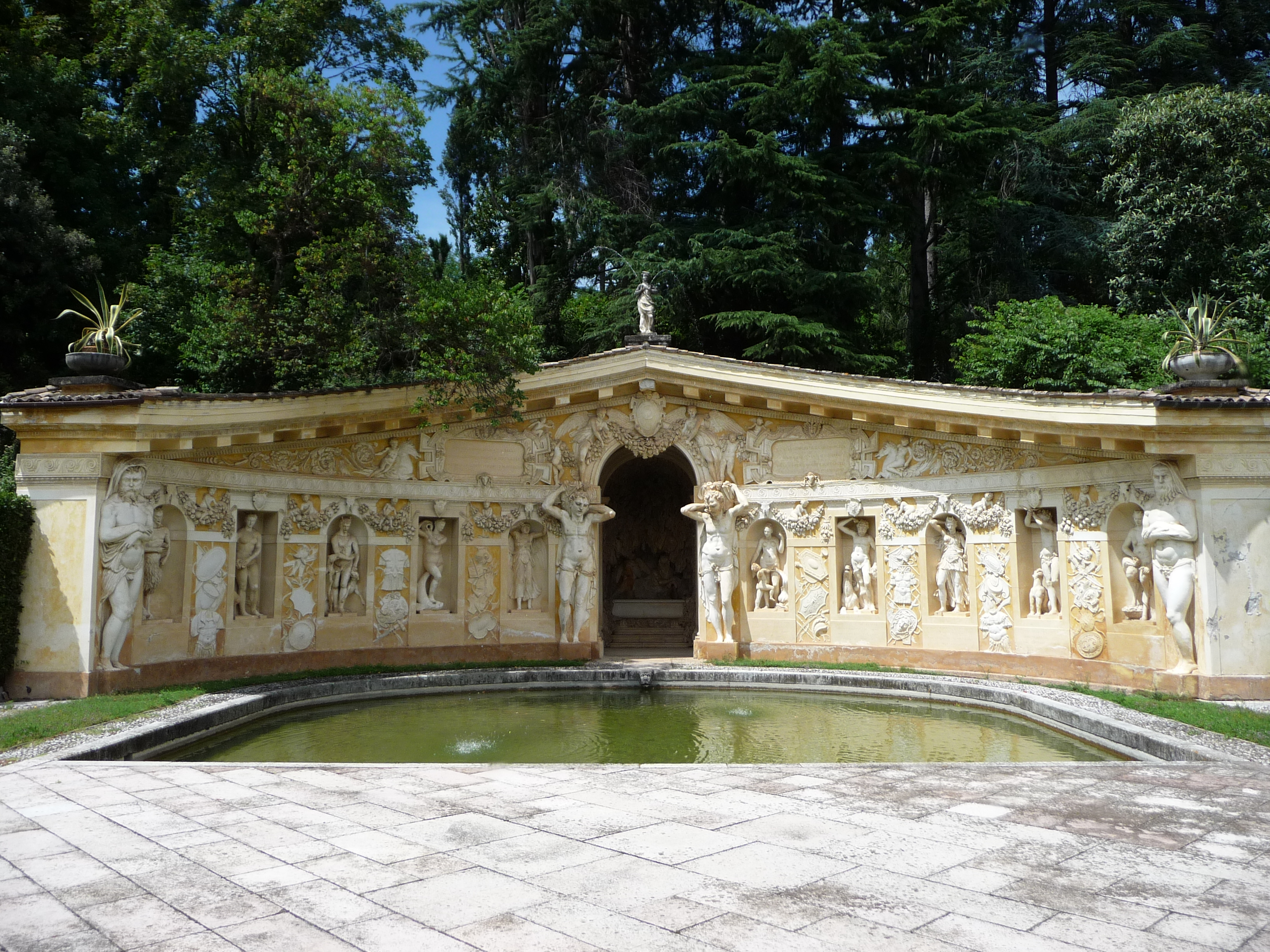 Villa Barbaro in Maser, province of Treviso, Italy, built by Andrea Palladio between 1554 and 1560 for the brothers Daniele and Marcantonio Barbaro.